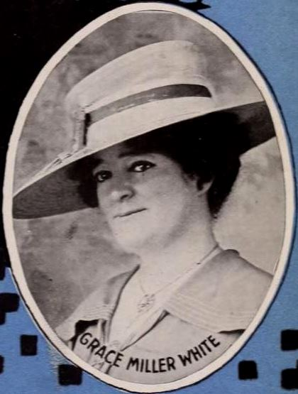 Author Grace Miller White, from an advertisement of the American film Judy of Rogue's Harbor (1920), from an insert after page 2 of the January 31, 1920 Exhibitors Herald.